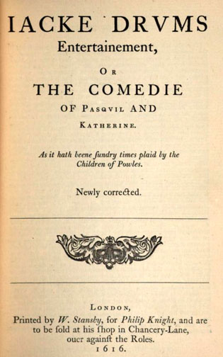 Title page of Jack Drum's Entertainment